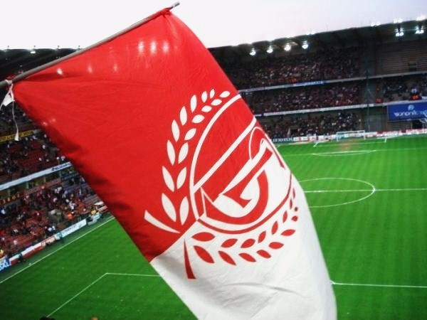 Belgian football club Standard de Liège's flag waving in the Maurice Dufrasne stadium (Sclessin, Liège, Belgium) in 2009.